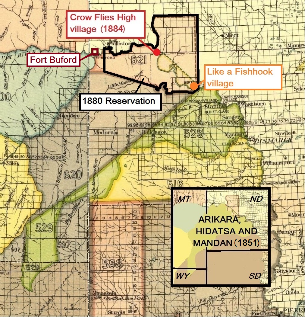 The 1884 village of Hidatsa Indian Crow Flies High and the Fort Berthold Indian reservation in North Dakota, also Like a Fishhook village (Mandan, Hidatsa and Arikara Indians)